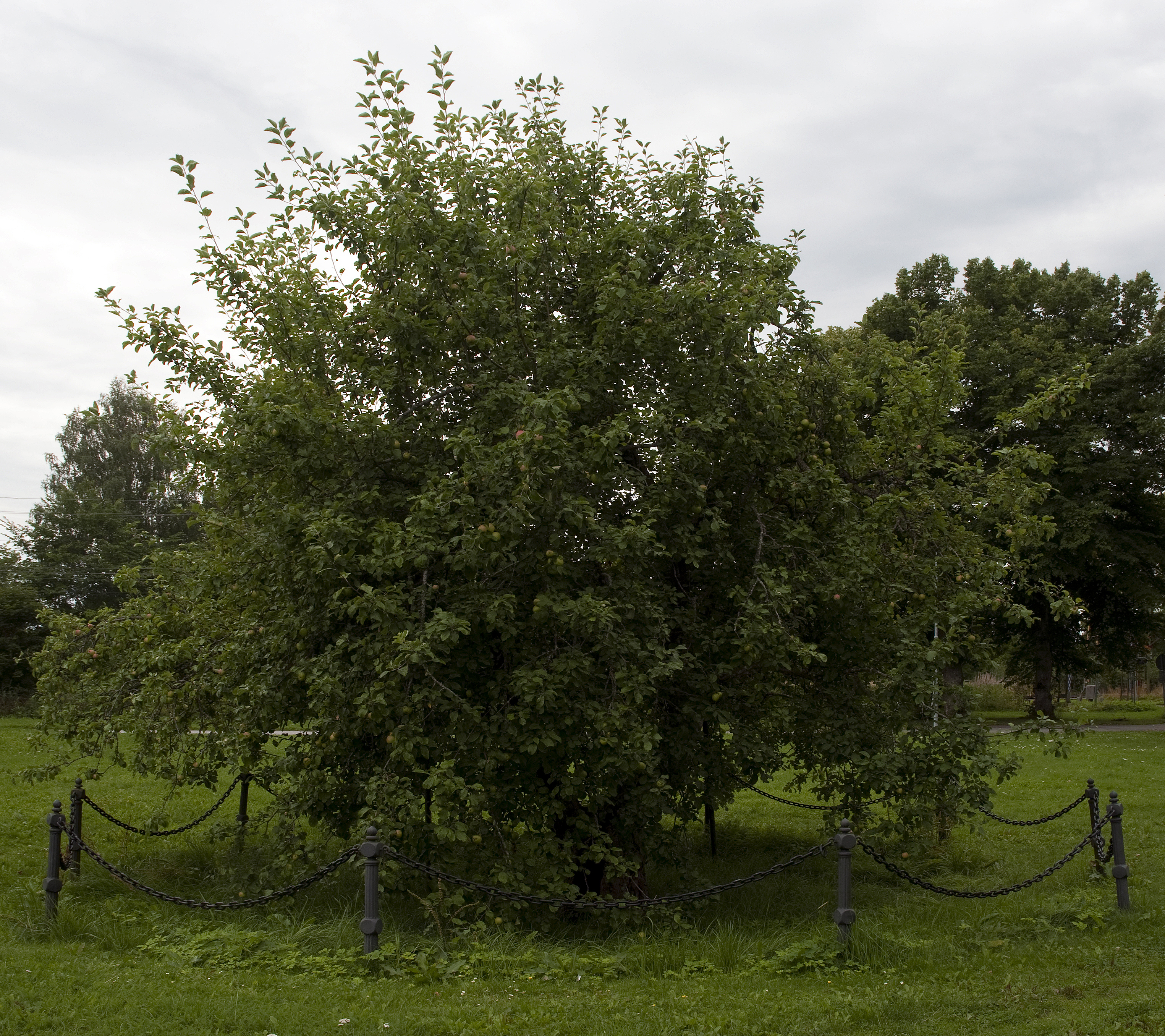 Mother Tree to Sävstaholmsäpplet in Vingåker.